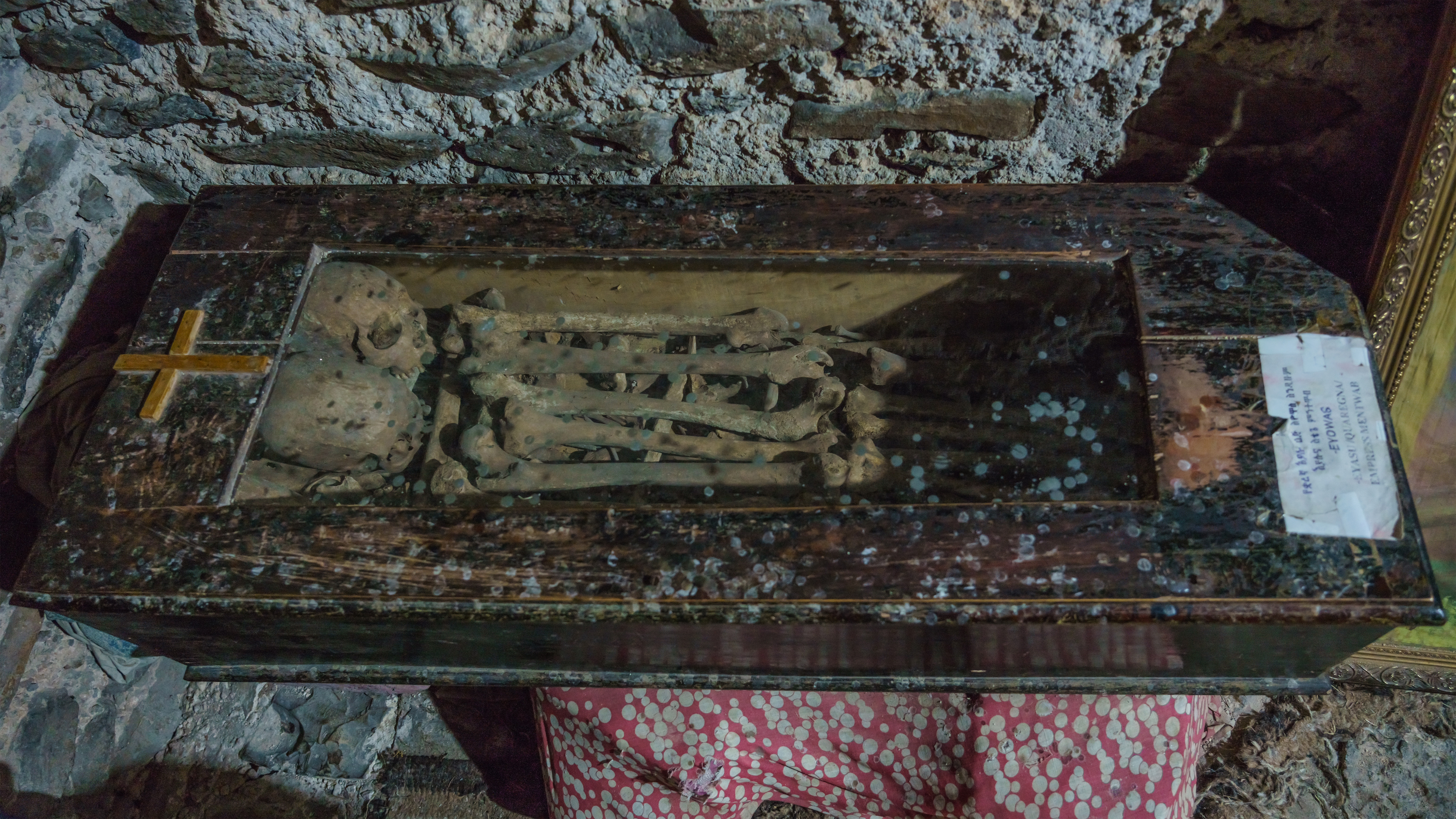 Bones of Empress Mentewab, her son Iyasu II, and his son Iyoas I – Kusquam fortress in Gondar, Ethiopia